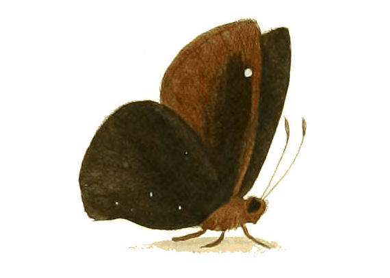 Extract from Plate XIX. HESPERIA ARCAS (= Ephyriades arcas). This file has been extracted from another file: Illustrations of Exotic Entomology I 19.jpg